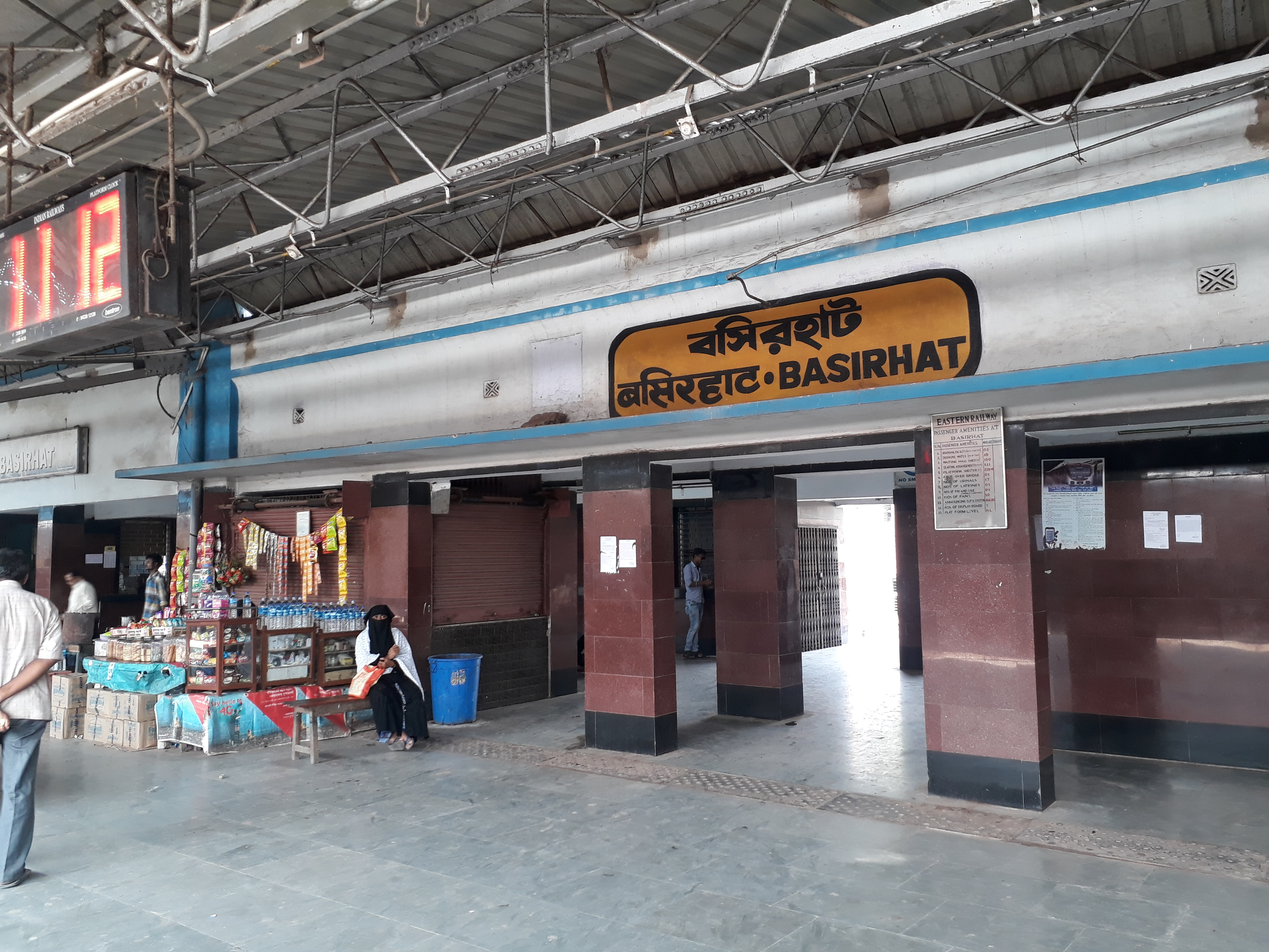 Basirhat Railway station in Barasat Hasanabad line, North 24 Pgns. West Bengal